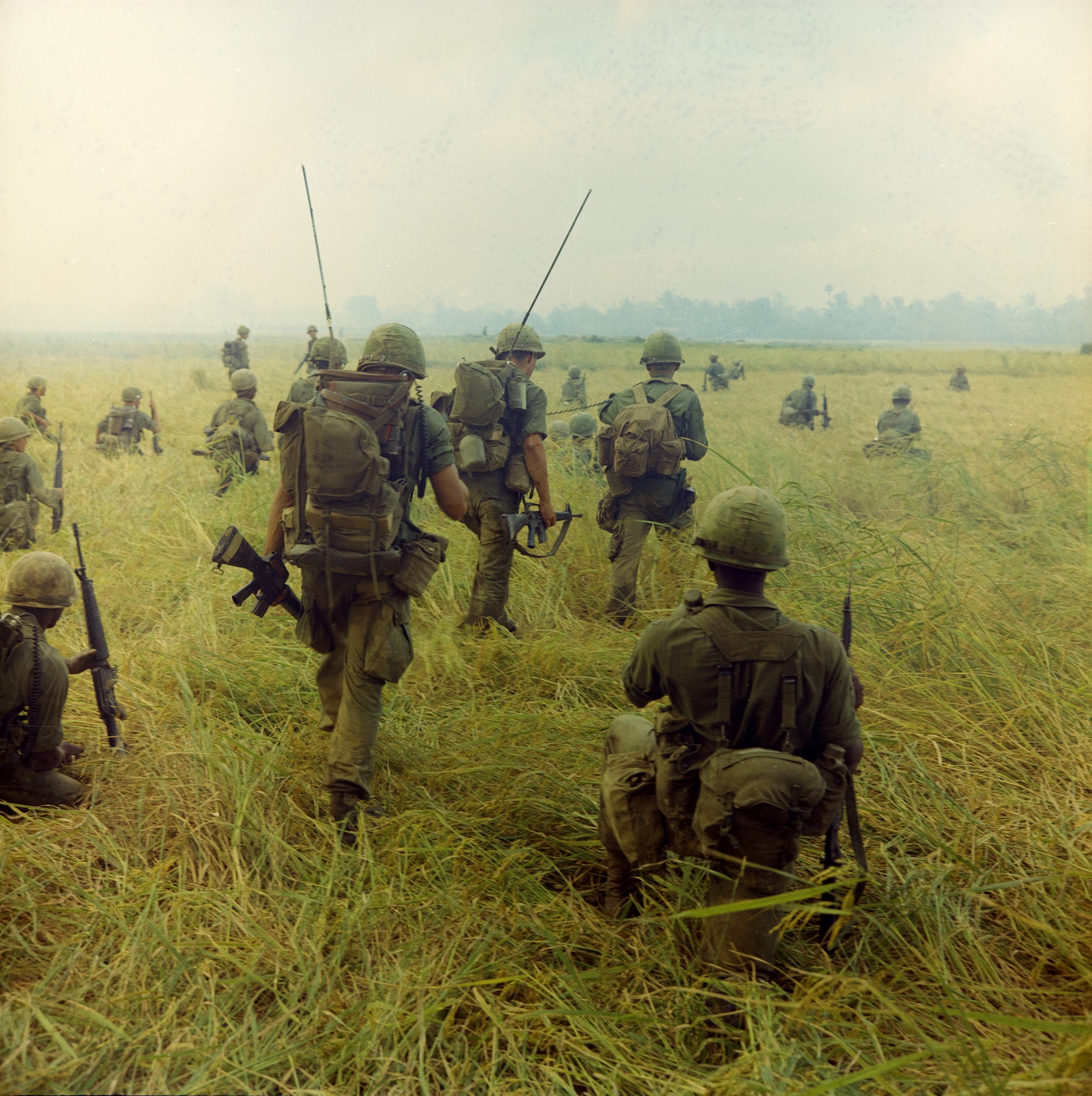 Soldiers of the 327th Infantry, 101st Airborne Brigade, prepare to move across a rice field in search of Viet Cong (VC). The Soldiers’ mission during Operation “Van Buren” was an effort to deny the vital rice harvest to the VC. The 327th was operating in areas around their home base located in Tuy Hoa, Republic of Vietnam.